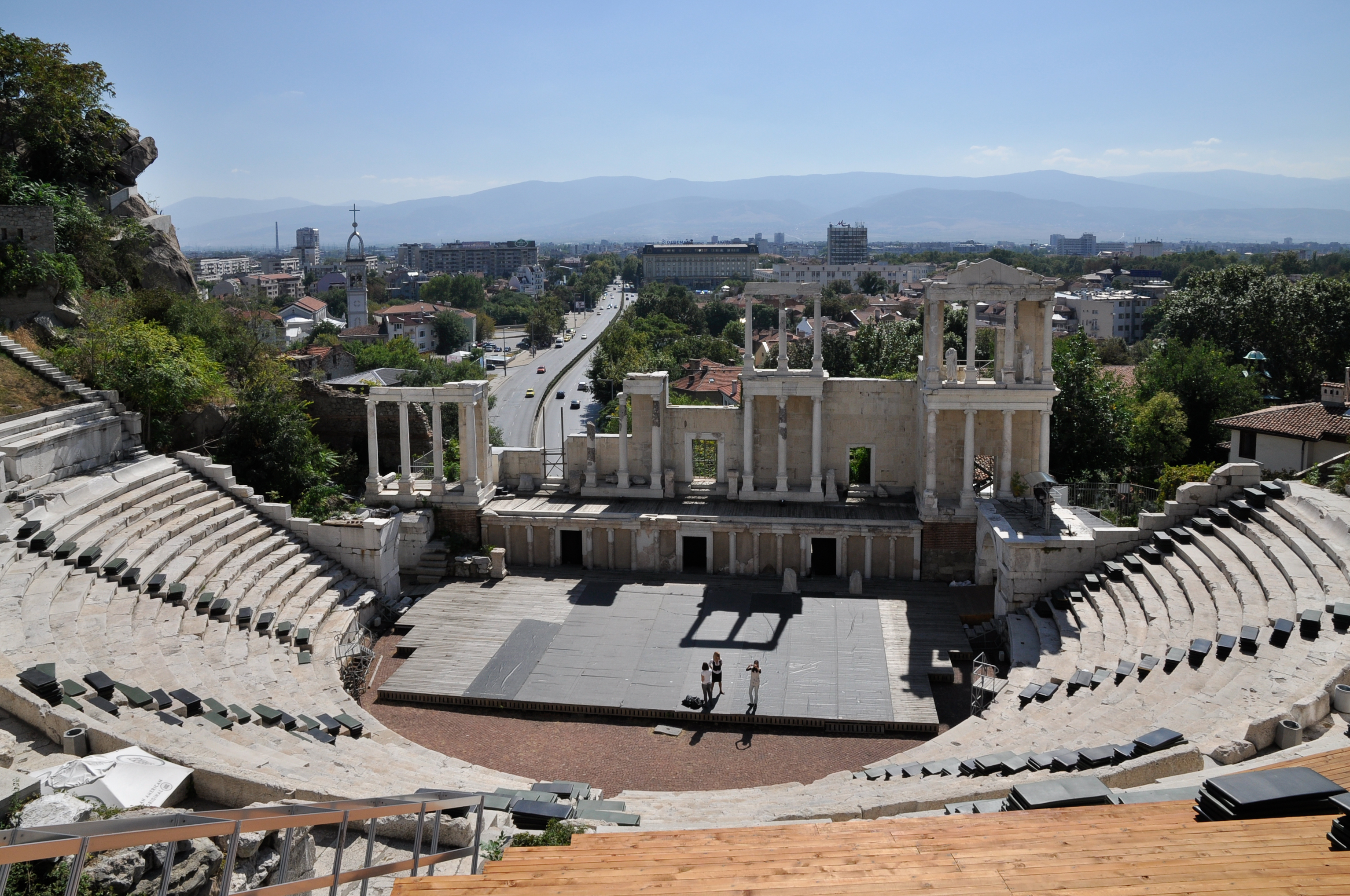 The ancient Roman theatre in Plovdiv, Bulgaria.